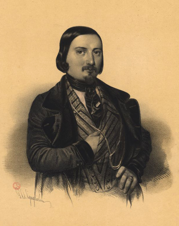 Enrico Tamberlick, Italian tenor.